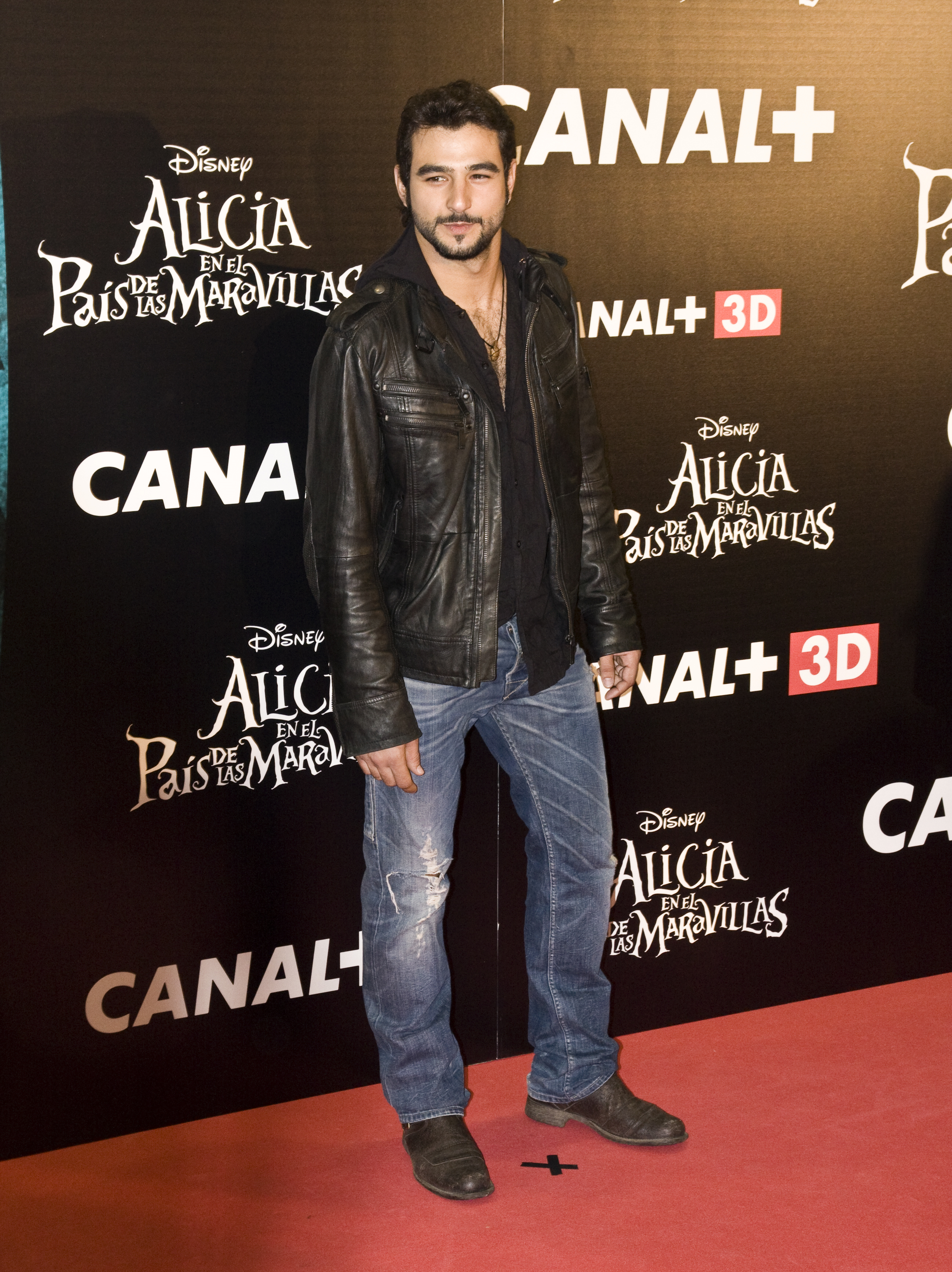 Antonio Velázquez Spanish actor at the photocall of Alice in Wonderland in 2010.